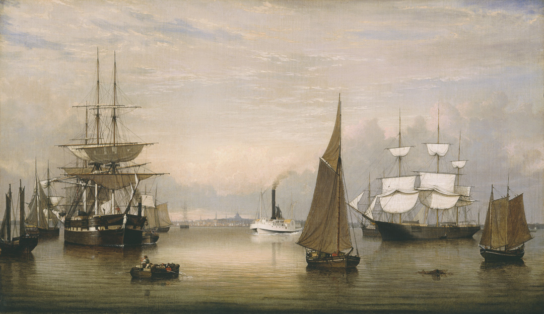 Fitz Henry Lane (1804-1865); Boston Harbor; 1856; Oil on canvas; Amon Carter Museum of American Art, Fort Worth, Texas; 1977.14. Boston Harbor. The setting for this busy scene is based on a drawing by Lane of Boston as viewed from Governor’s Island and apparently updated in 1853-54 Boston Harbor, 1850s (inv. 158). The steeple of the First Baptist Church (completed in 1853) appears near the foremast of the approaching coastal steamer, confirming a post-1853 date for this painting. It is close to noon, with sunlight passing through breaks in an overcast sky to illuminate the steamer and ships’ sails in the middle ground, while vessels in the foreground float darkened and becalmed. More detail